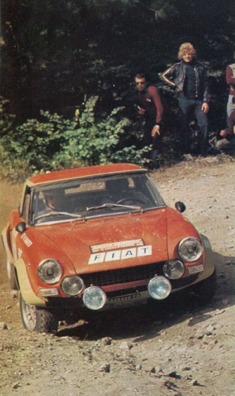 Italian rally driver Giulio Bisulli and his co-driver Francesco Rossetti on a Fiat 124 Abarth Rally (Group 4) at the 1974 Rallye Sanremo.